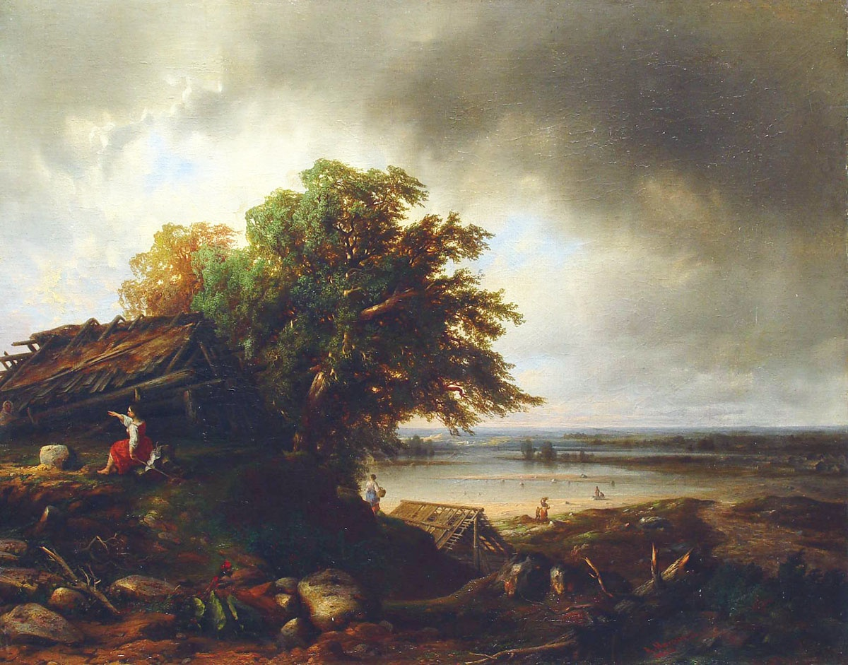 The estate of Count Kushelev-Bezborodko "Krasnopoltsy", Holmskogo district of Pskov province Направление: Академизм Год: 1854 Тип объекта: Картина Местонахождение: Государственный Русский музей, Санкт-Петербург Материалы: холст, масло Размеры: 71 х 92 см